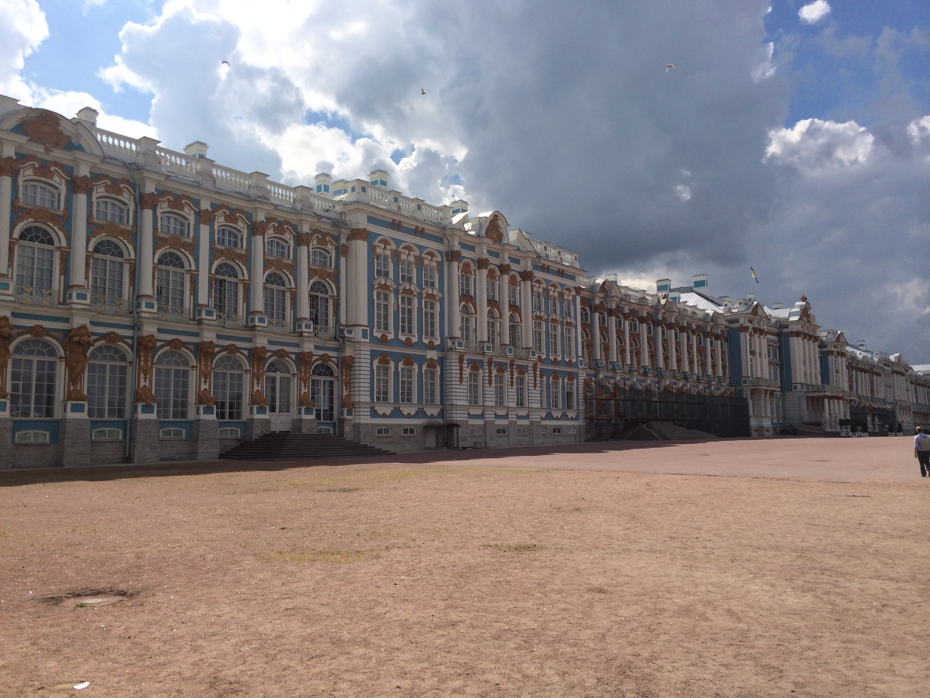 Exterior of Tsarskoe Selo